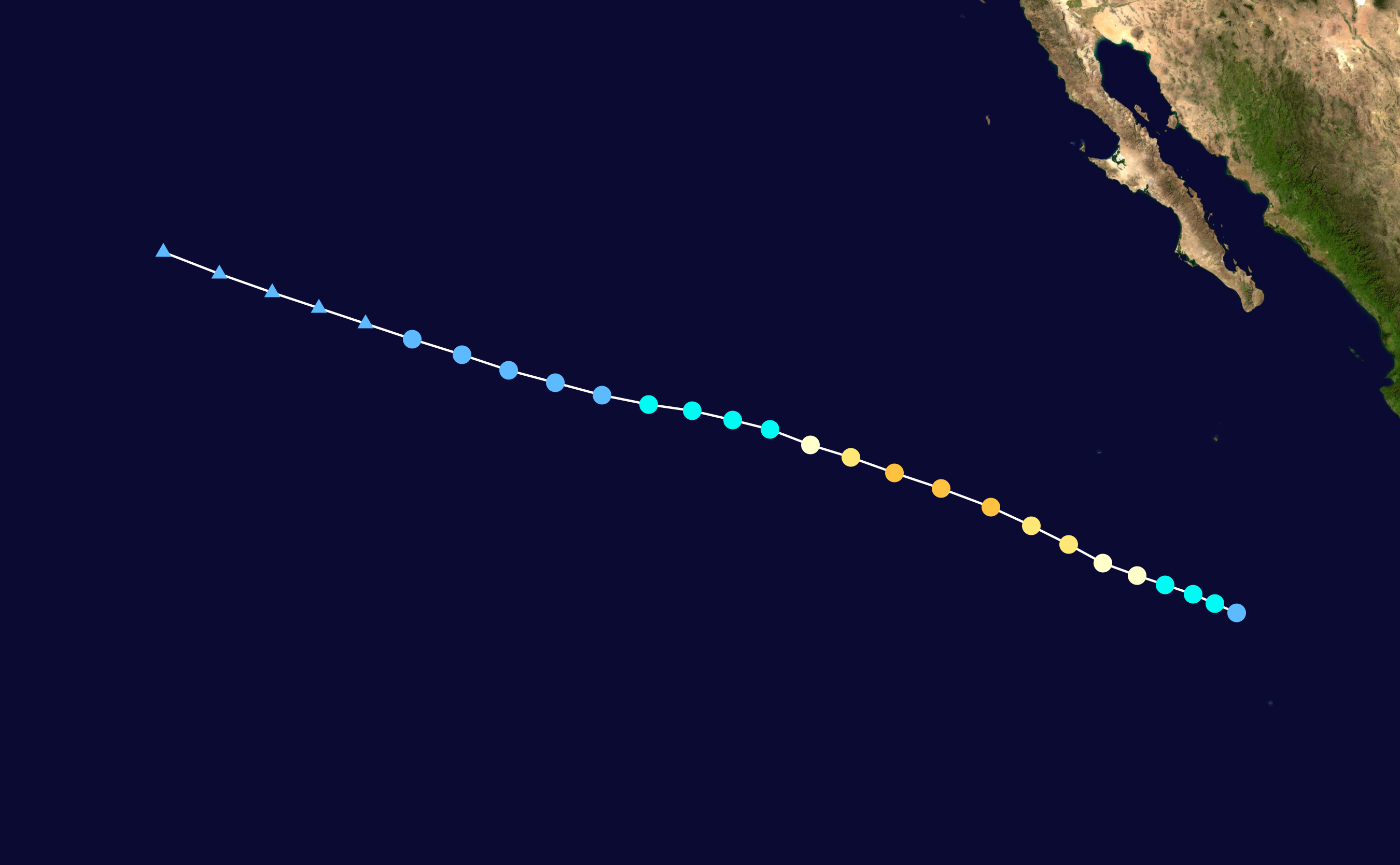 Track map of Hurricane Bud of the 2006 Pacific hurricane season. The points show the location of the storm at 6-hour intervals. The colour represents the storm's maximum sustained wind speeds as classified in the Saffir–Simpson scale (see below), and the shape of the data points represent the nature of the storm, according to the legend below. Saffir–Simpson scale Tropical depression≤38 mph≤62 km/h Category 3111–129 mph178–208 km/h Tropical storm39–73 mph63–118 km/h Category 4130–156 mph209–251 km/h Category 174–95 mph119–153 km/h Category 5≥157 mph≥252 km/h Category 296–110 mph154–177 km/h Unknown Storm type Tropical cyclone Subtropical cyclone Extratropical cyclone / Remnant low / Tropical disturbance / Monsoon depression